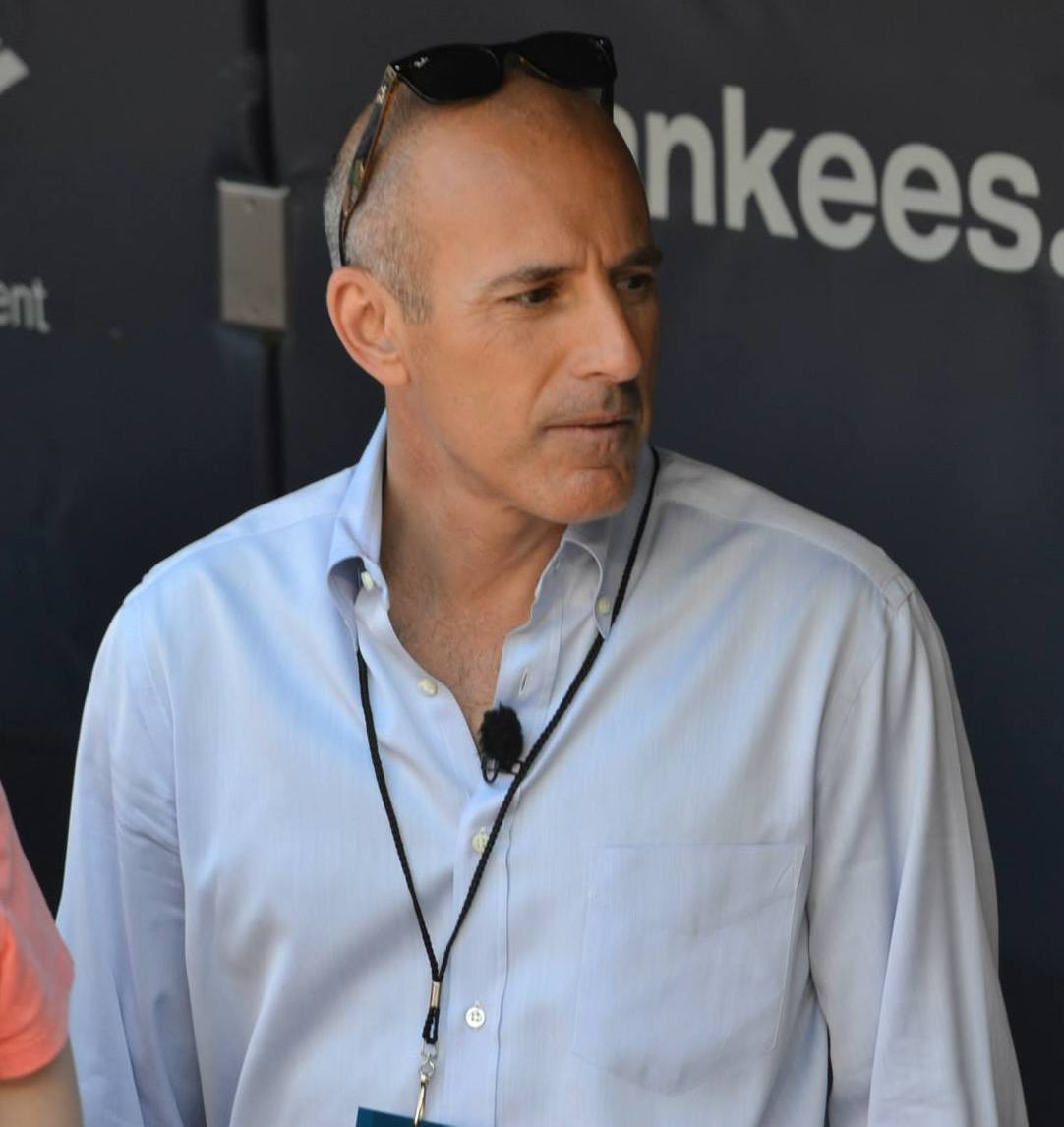 Television personality Matt Lauer prior to a game against the Toronto Blue Jays at Yankee Stadium in the Bronx, New York, NY on June 18, 2014